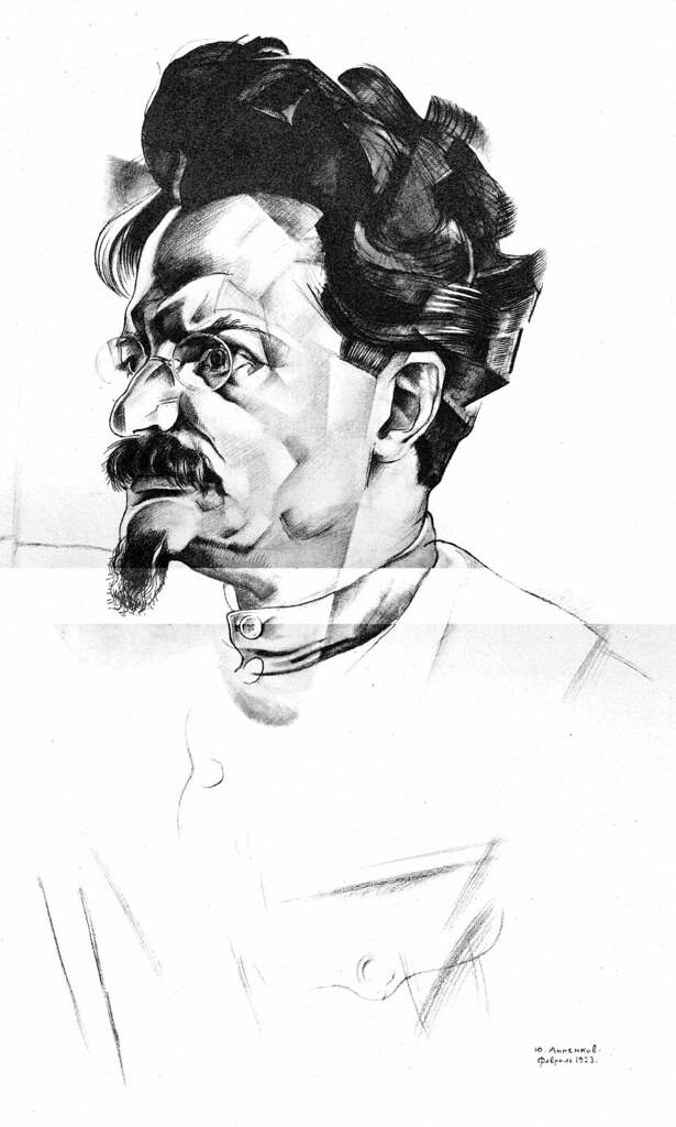 A version of this 1922 portrait was used on the cover of the November 21, 1927 Time magazine.